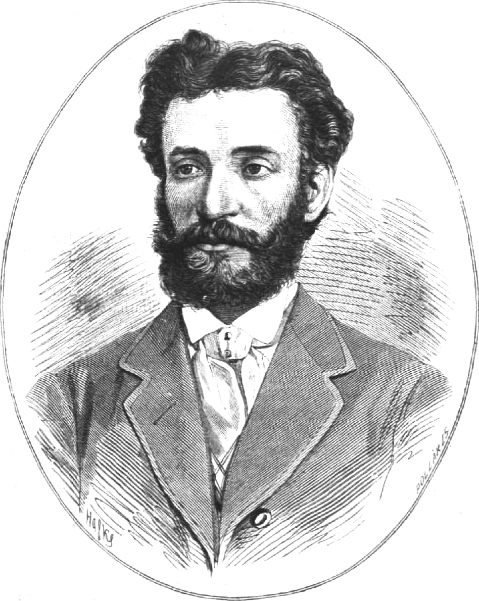 Portrait of Gábor Szentkatolnai Bálint